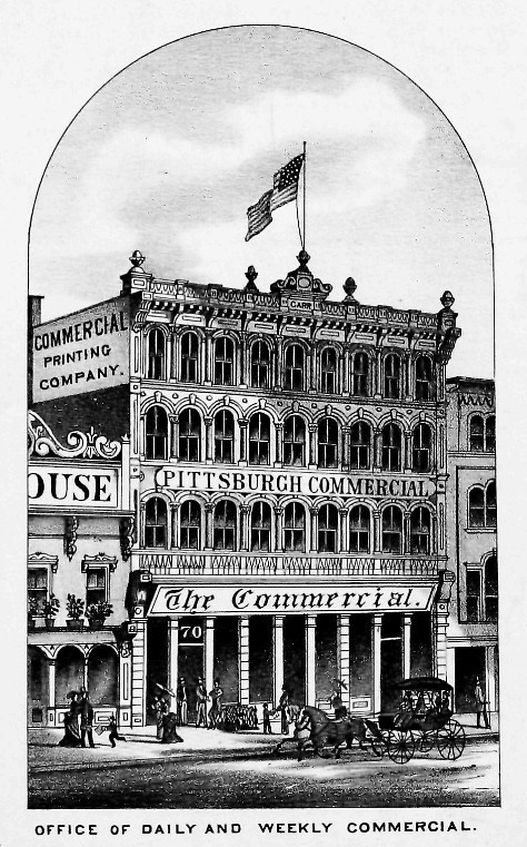 Iron-front building at 66–70 Fifth Avenue (later numbered 306–310), Pittsburgh, Pennsylvania, United States. Built in 1876, it was home to the Pittsburgh Commercial newspaper until 1877, and its successor, the Pittsburgh Commercial Gazette, until 1890. The Pittsburgh Leader shared the building for a few years. The site is now occupied by the Tower at PNC Plaza.